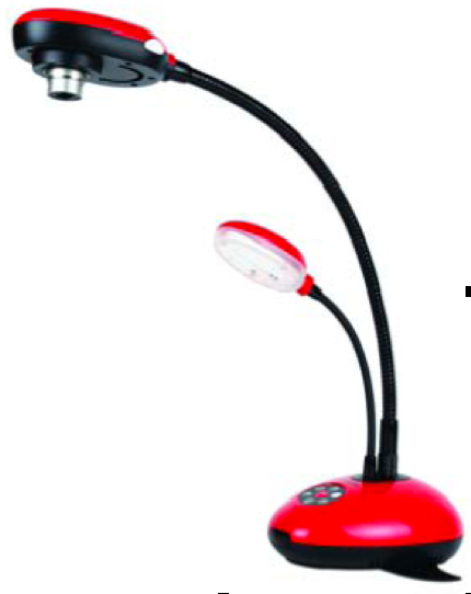 Gooseneck document camera